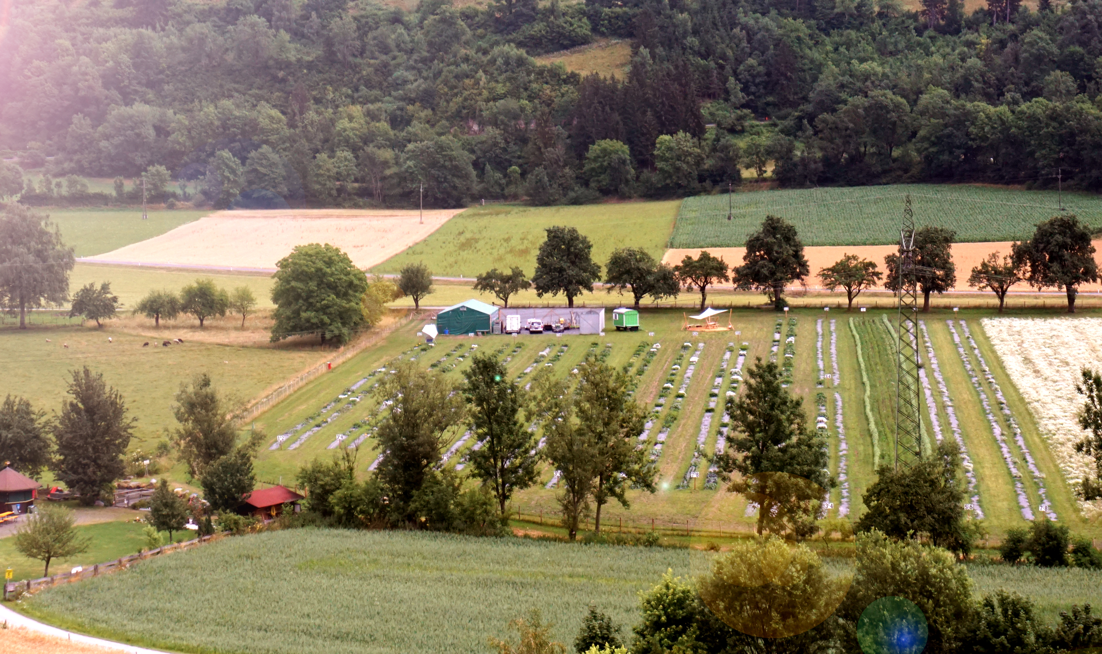 Picture of the myAcker Farm in Mühldorf (Carinthia, Austria)